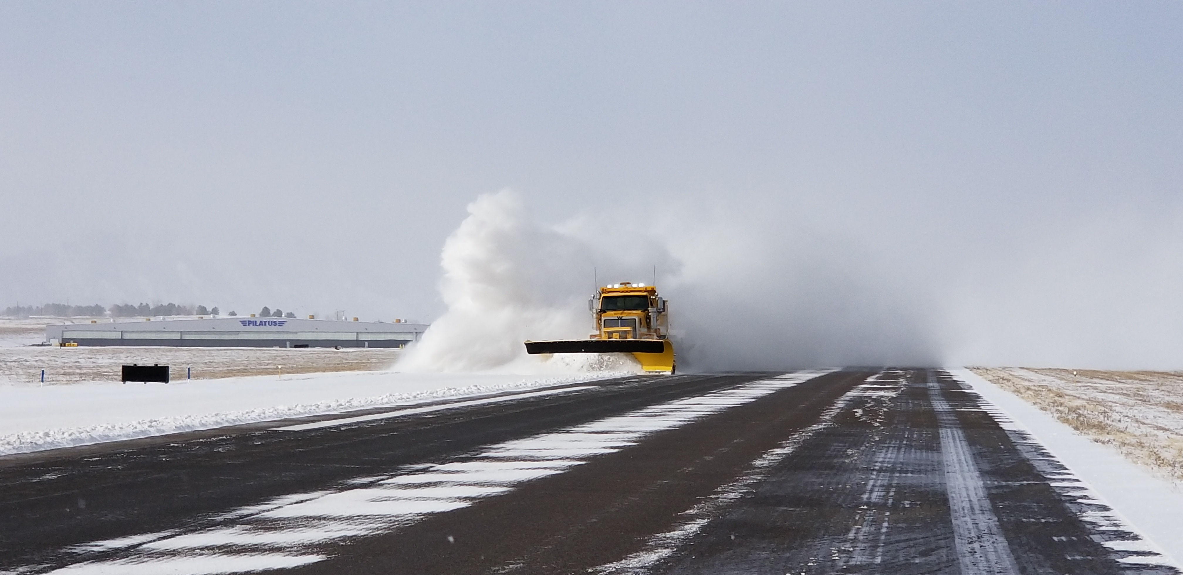 Snow removal in progress at Rocky Mountain Metropolitan Airport (BJC) on RWY 12R/30L.